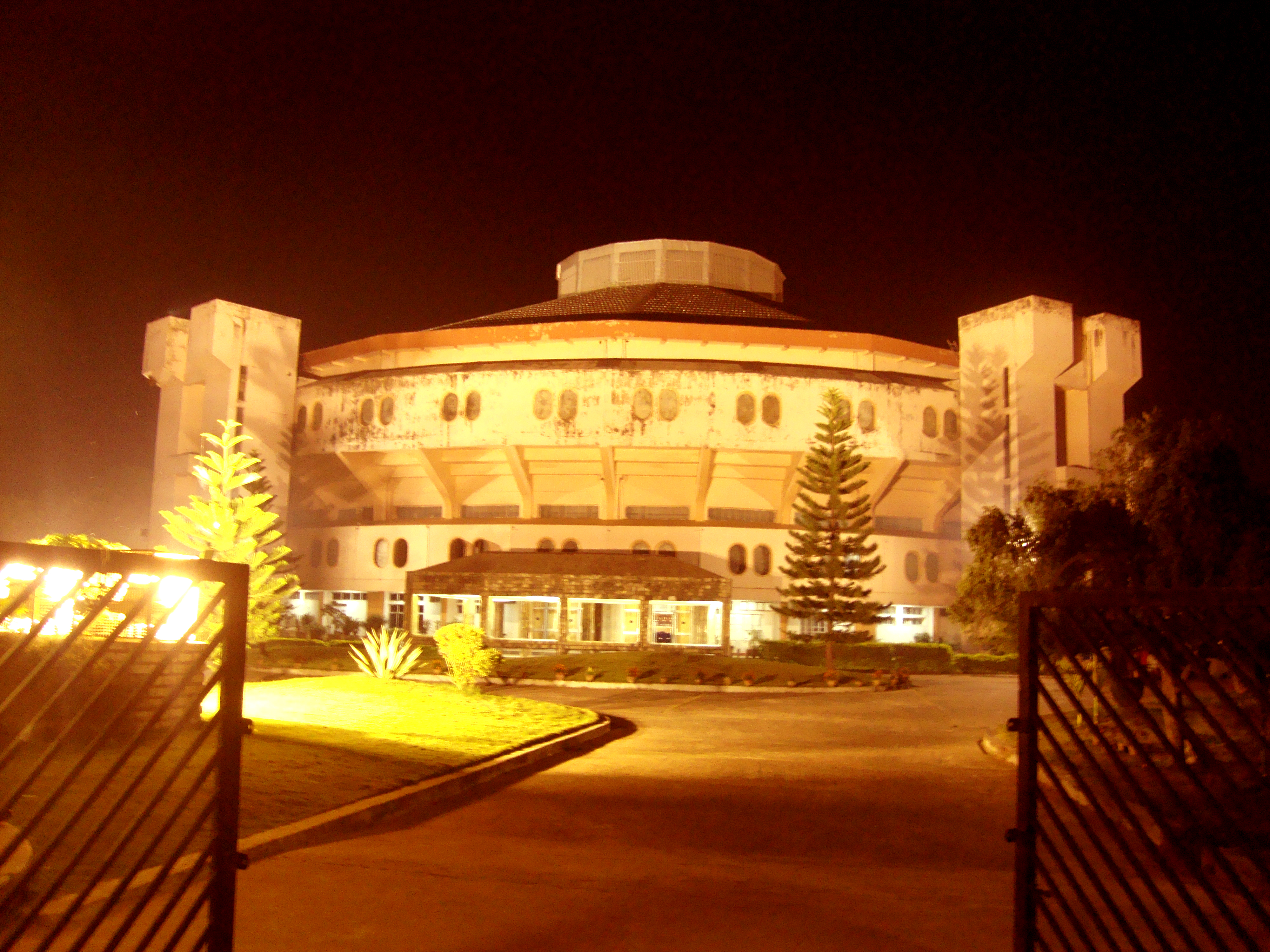 Jawaharlal Nehru Indoor stadium, Cuttack